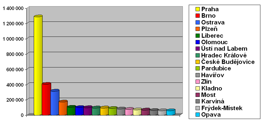 Graph of czech cities of number their inhabitans